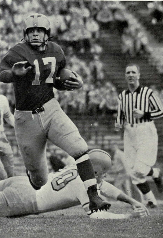 Photograph of Tony Branoff running with the ball during the 1953 football season This work is in the public domain because it was published in the United States between 1923 and 1963 and although there may or may not have been a copyright notice, the copyright was not renewed. Unless its author has been dead for the required period, it is copyrighted in the countries or areas that do not apply the rule of the shorter term for US works, such as Canada (50 pma), Mainland China (50 pma, not Hong Kong or Macao), Germany (70 pma), Mexico (100 pma), Switzerland (70 pma), and other countries with individual treaties. See Commons:Hirtle chart for further explanation. This work is in the public domain in the United States because it was published in the United States between 1923 and 1977 without a copyright notice. See Commons:Hirtle chart for further explanation. Note that it may still be copyrighted in jurisdictions that do not apply the rule of the shorter term for US works (depending on the date of the author's death), such as Canada (50 p.m.a.), Mainland China (50 p.m.a., not Hong Kong or Macao), Germany (70 p.m.a.), Mexico (100 p.m.a.), Switzerland (70 p.m.a.), and other countries with individual treaties.